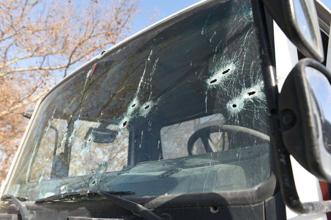 Front of the Truck which used in January 8, 2017 Jerusalem truck attack